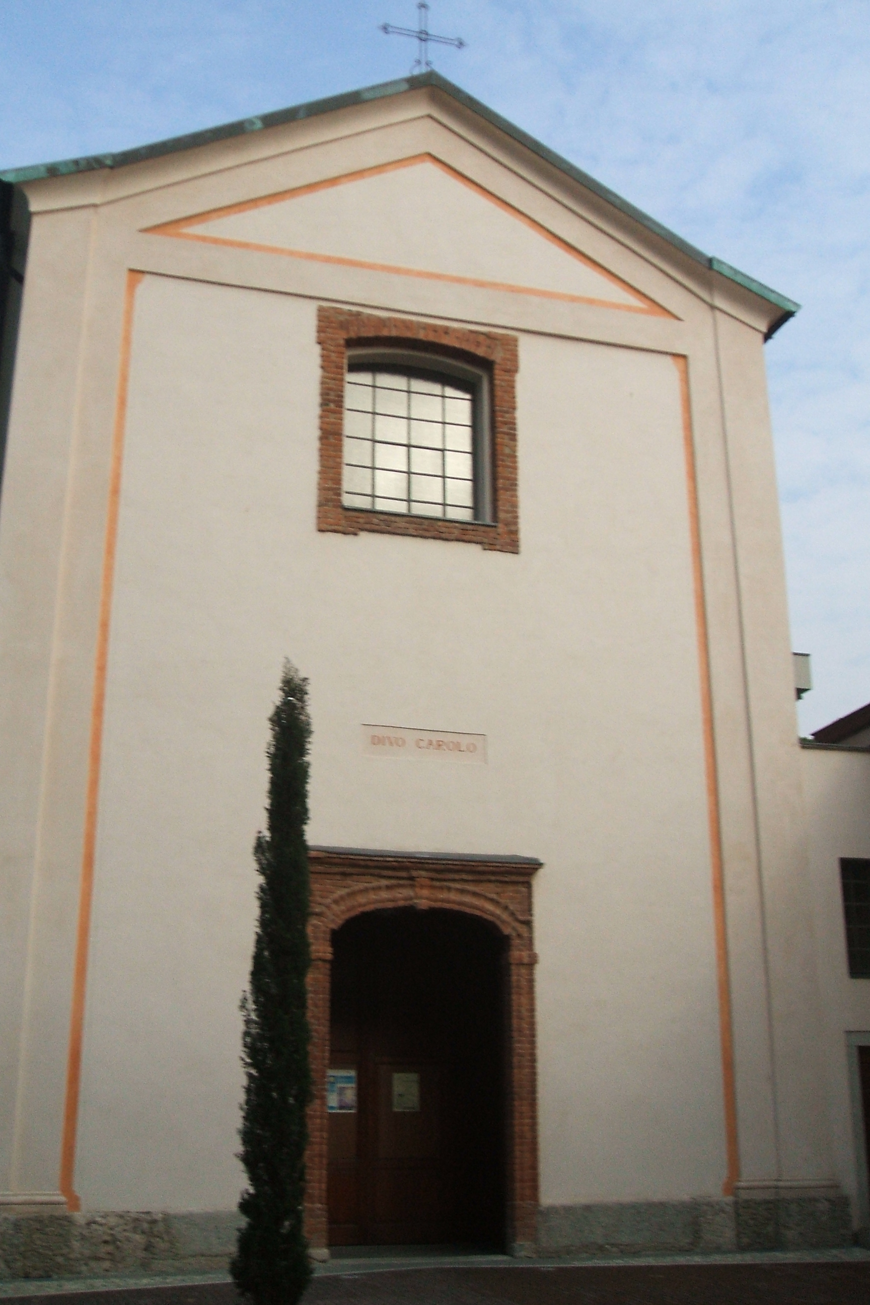 Chiesa di San Carlo, Lissone